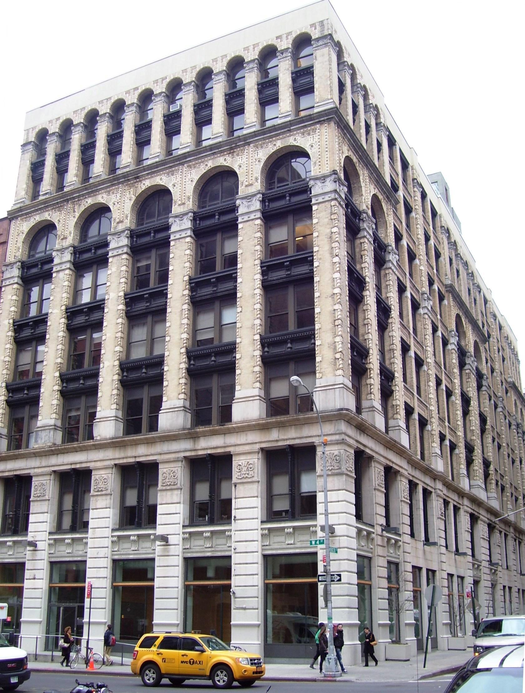 19 West 4th Street at the corner of Mercer Street in the Greenwich Village neighborhood of Manhattan, New York City, was built in 1900. It was the location of The Bottom Line, a nightclub / concert hall (in the southeast corner of the building, with the address 15 West 4th Street). It is now part of New York University, and goes through to Washington Place, where its address is 8 Washington Place. (Source: NYC GIS map, NYU Campus map, NYC Songlines)